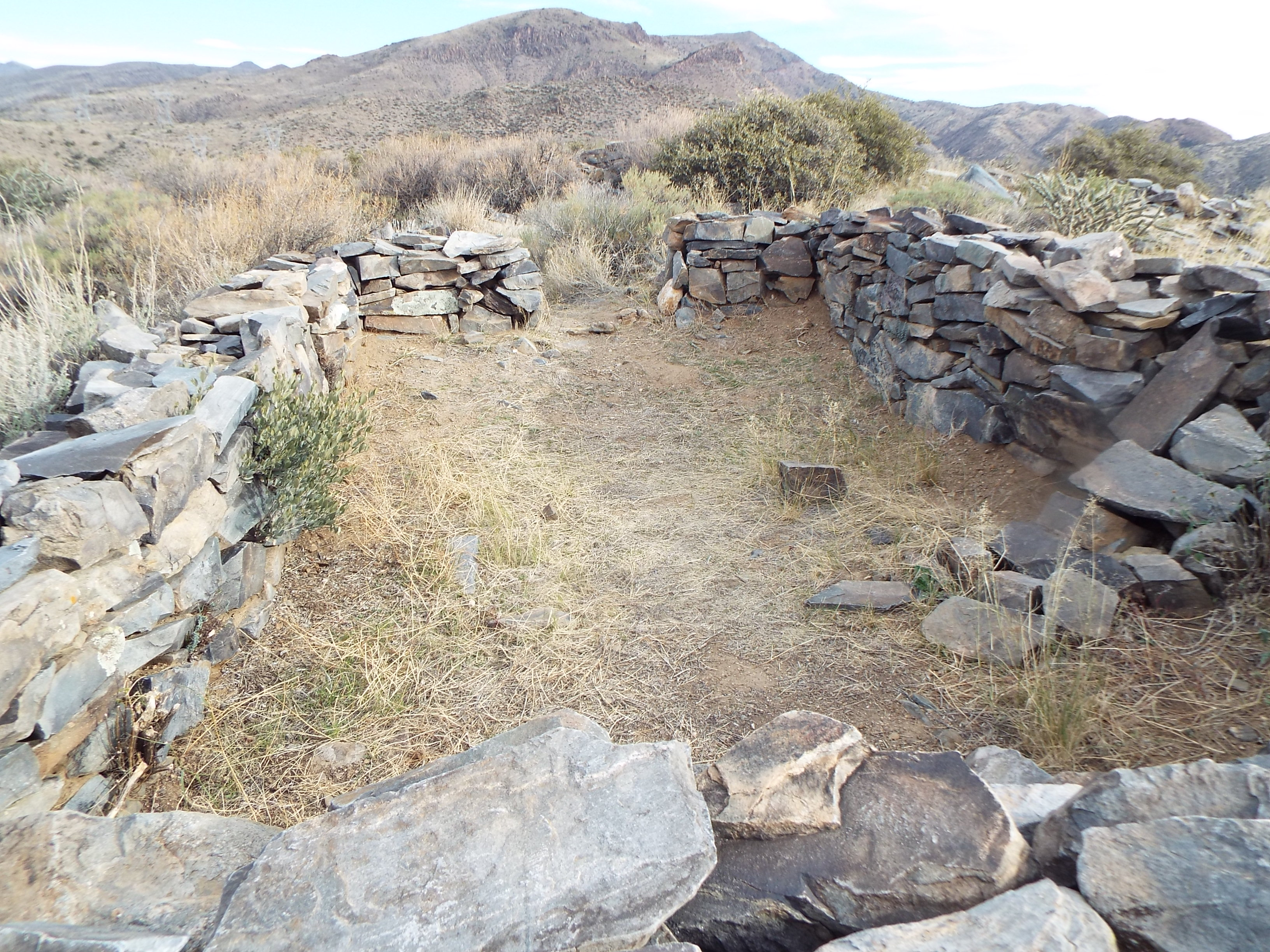 Sears-Kay Ruin Fort rooms. Located atop a desert foothill in the Tonto National Forest on the outskirts of the town of Carefree, Az. The site was listed in the National Register of Historic Places in November 24, 1995.